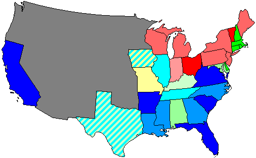 Summary of party control of U.S. house seats in the 34th United States Congress following election. Stripes indicate a tie between two or more parties. Legend: 80.1-100% Democratic seat majority 60.1-80% Democratic seat majority 60% or less Democratic seat plurality 60% or less Republican/Opposition seat plurality 60.1-80% Republican/Opposition seat majority 80.1-100% Republican/Opposition seat majority 60% or less American seat plurality 60.1-80% American seat majority 80.1-100% American seat majority 60% or less Whig seat plurality 60.1-80% Whig seat majority 80.1-100% Whig seat majority